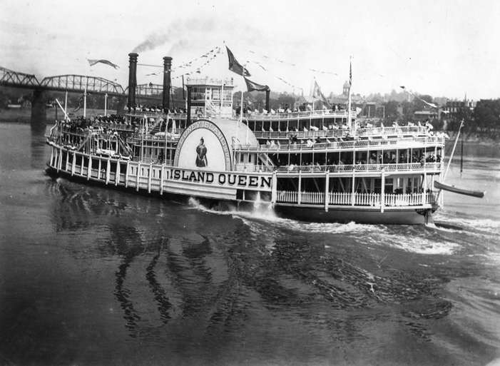 A profile of the second US Steamboat Island Queen.